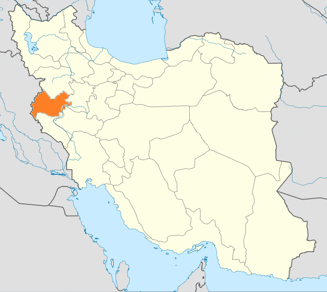 Locator map of Kermanshah Province — western Iran.